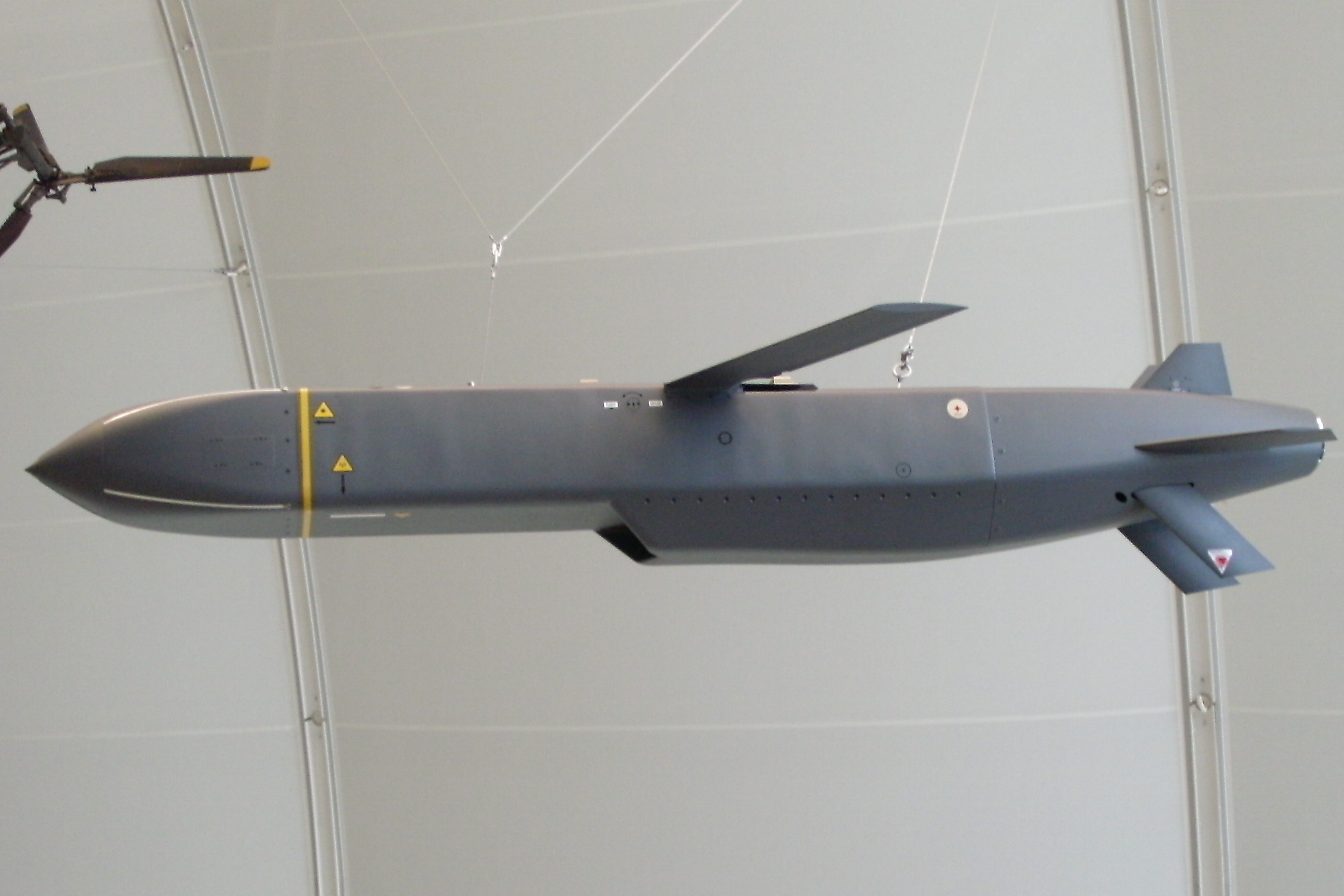 MBDA Storm Shadow air-to-surface missile. First used in the 2003 Iraq War. This photo was taken as part of Britain Loves Wikipedia in February 2010 by Adam Morgan.